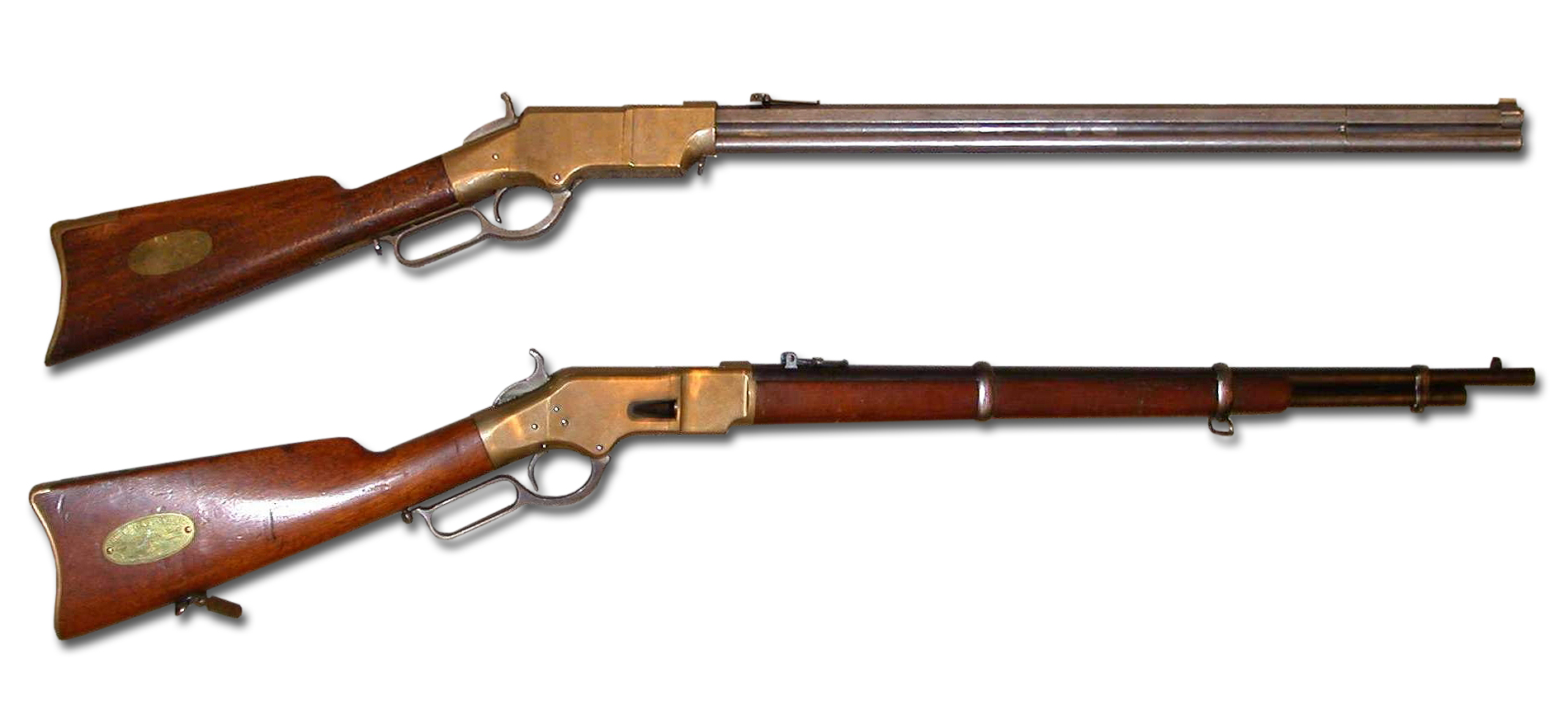 An early Henry Rifle and a Winchester Mod 1866 Rifle, both .44 caliber Rimfire